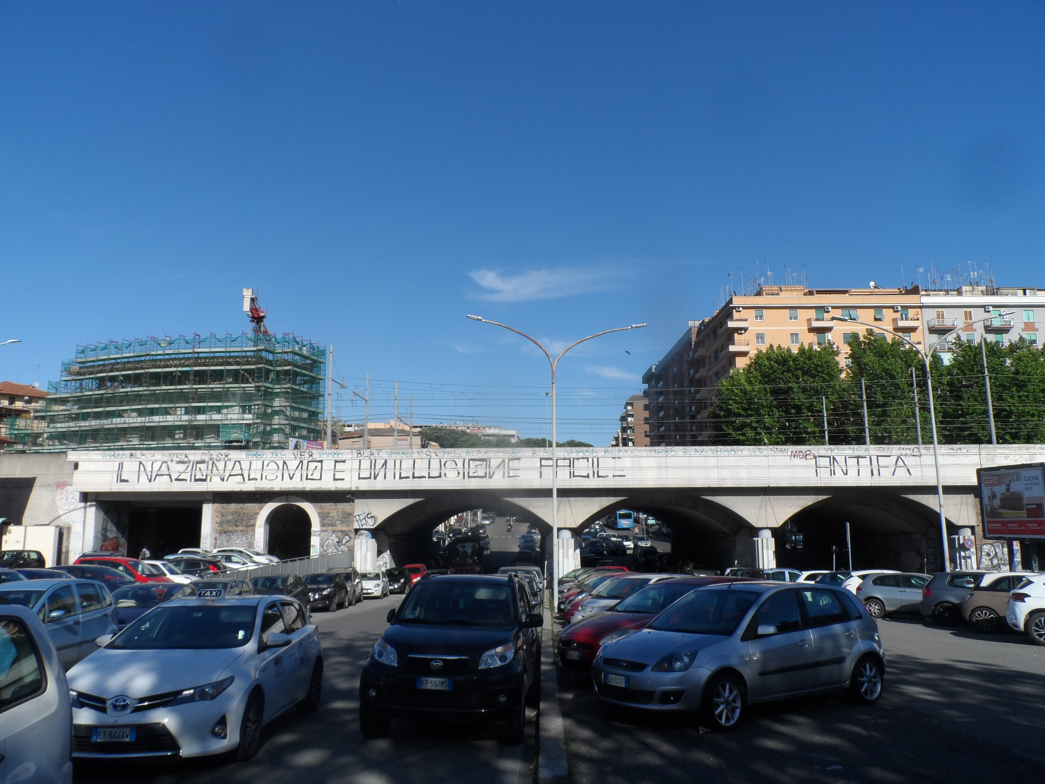 bridge with Antifa slogan, Rome